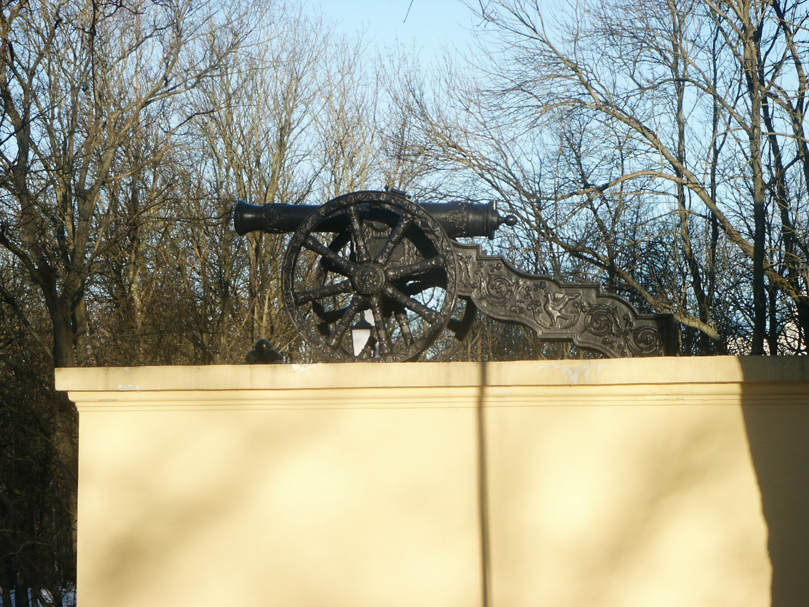 Palace of Pashkevichs, Homel, Belarus.